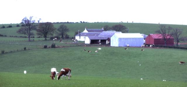 Lochlea Farm. On this farm, of which his father was the tenant between 1777 and 1784, the young Robert Burns toiled in the fields.